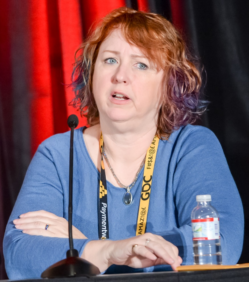 Sheri Graner Ray CEO/Founder, Zombie Cat Studios video game company, at the 2015 Game Developers Conference Diversity Advocacy Workshop. Location: Room 132, North Hall Date: Thursday, March 5 Time: 10:00am - 12:00pm""